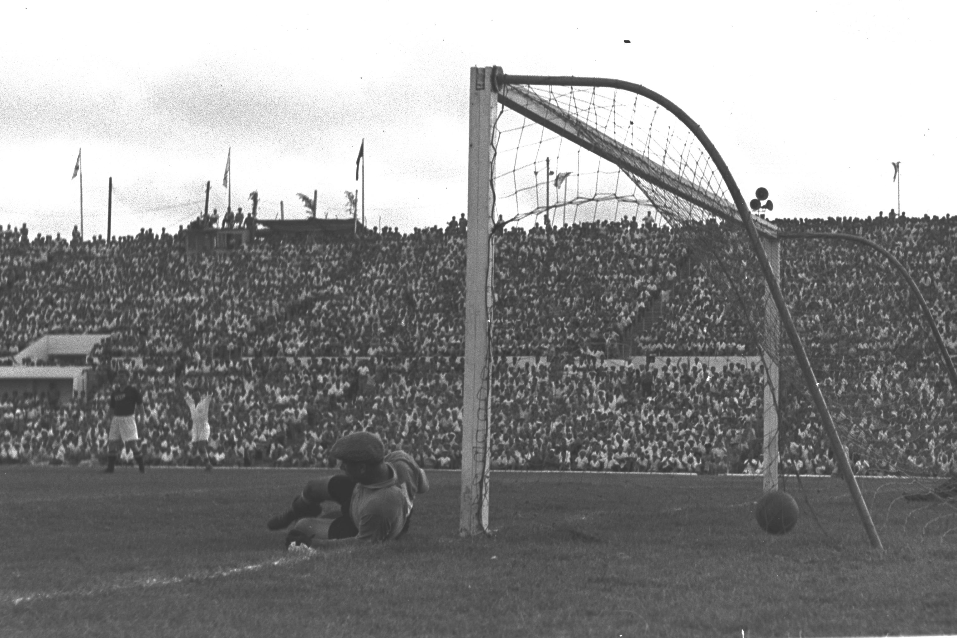 Russian Golaie Lev Yashin, fails to stop a goal during the soccer match held at the Ramat Gan stadium between Israel & Russia.